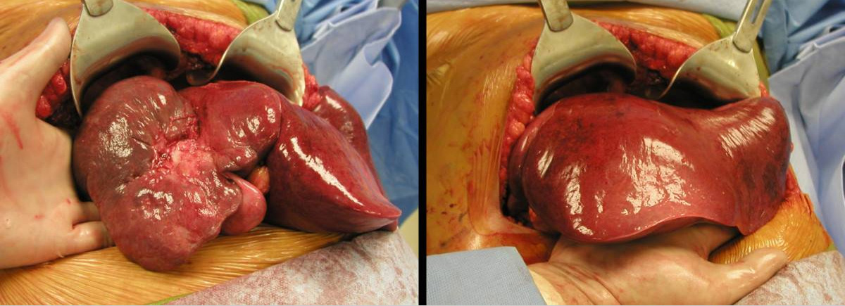 Intra-operative pictures demonstrating significantly down-sized tumor with scarring and, major left lobe hypertrophy. A formal right hepatic lobectomy was performed.